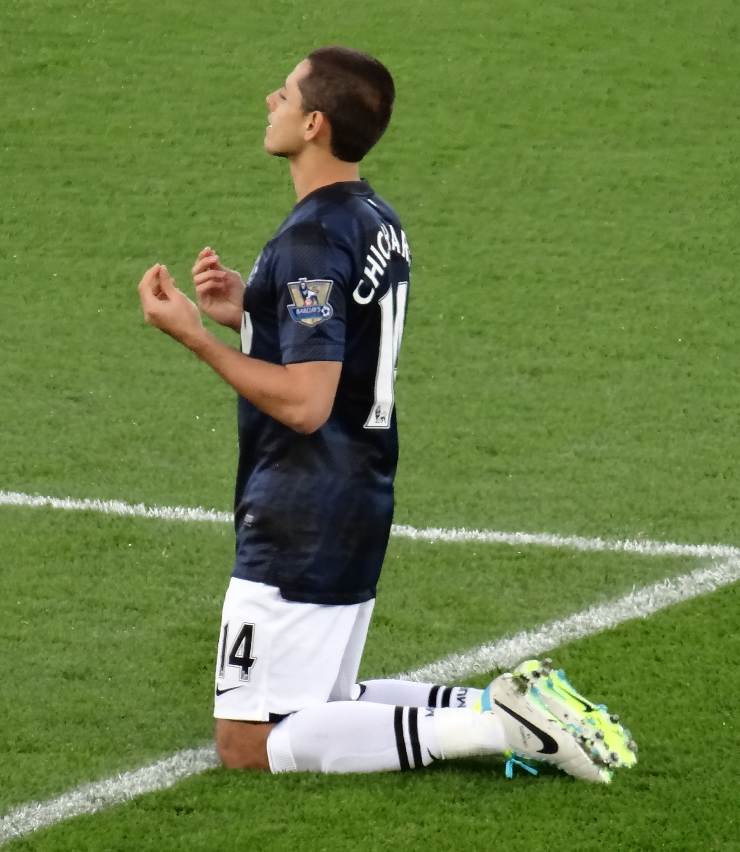 Javier Hernandez praying before a match against Cardiff City in November 2013.